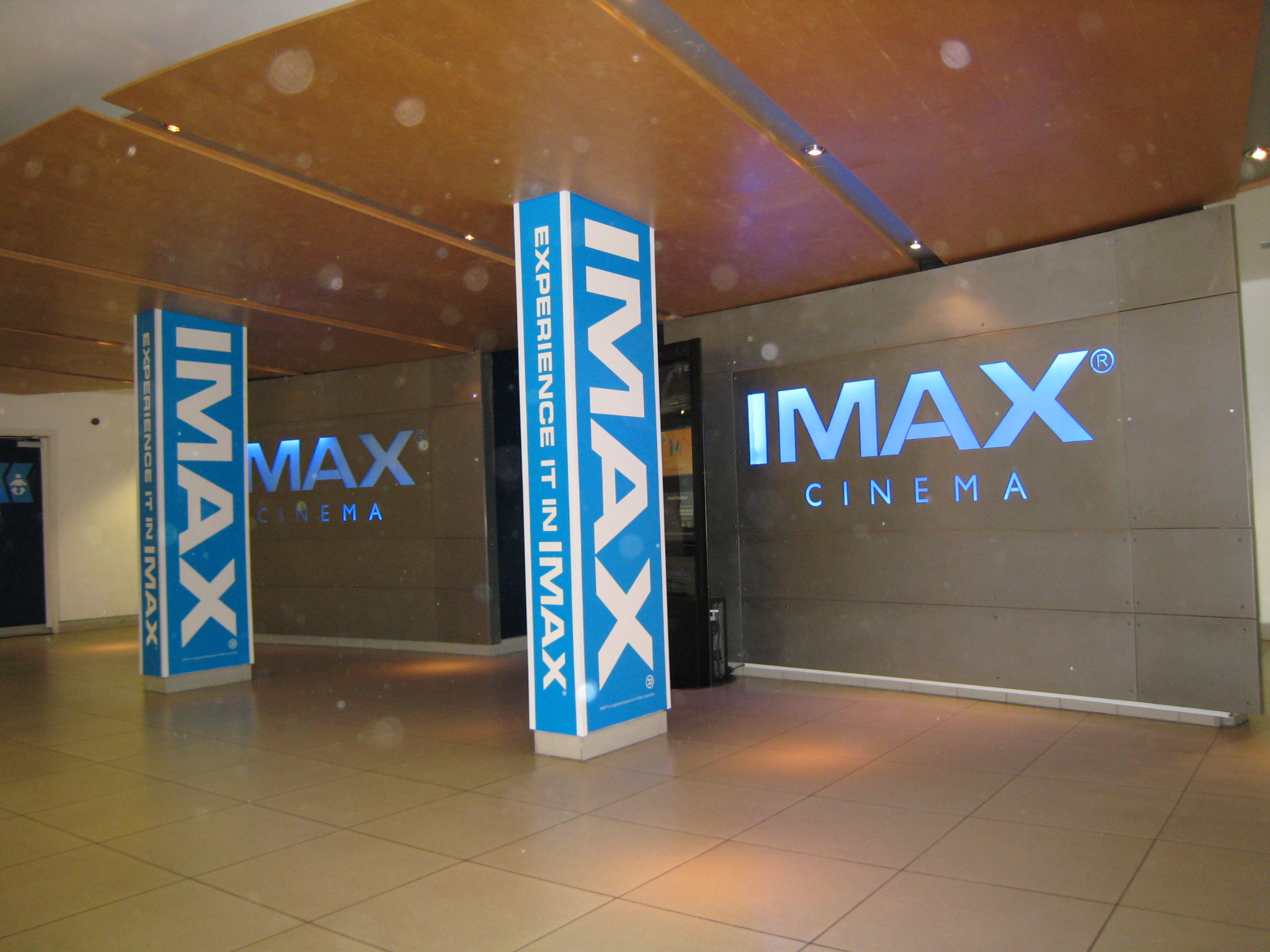 Entrance to the IMAX cinema at the National Media Museum